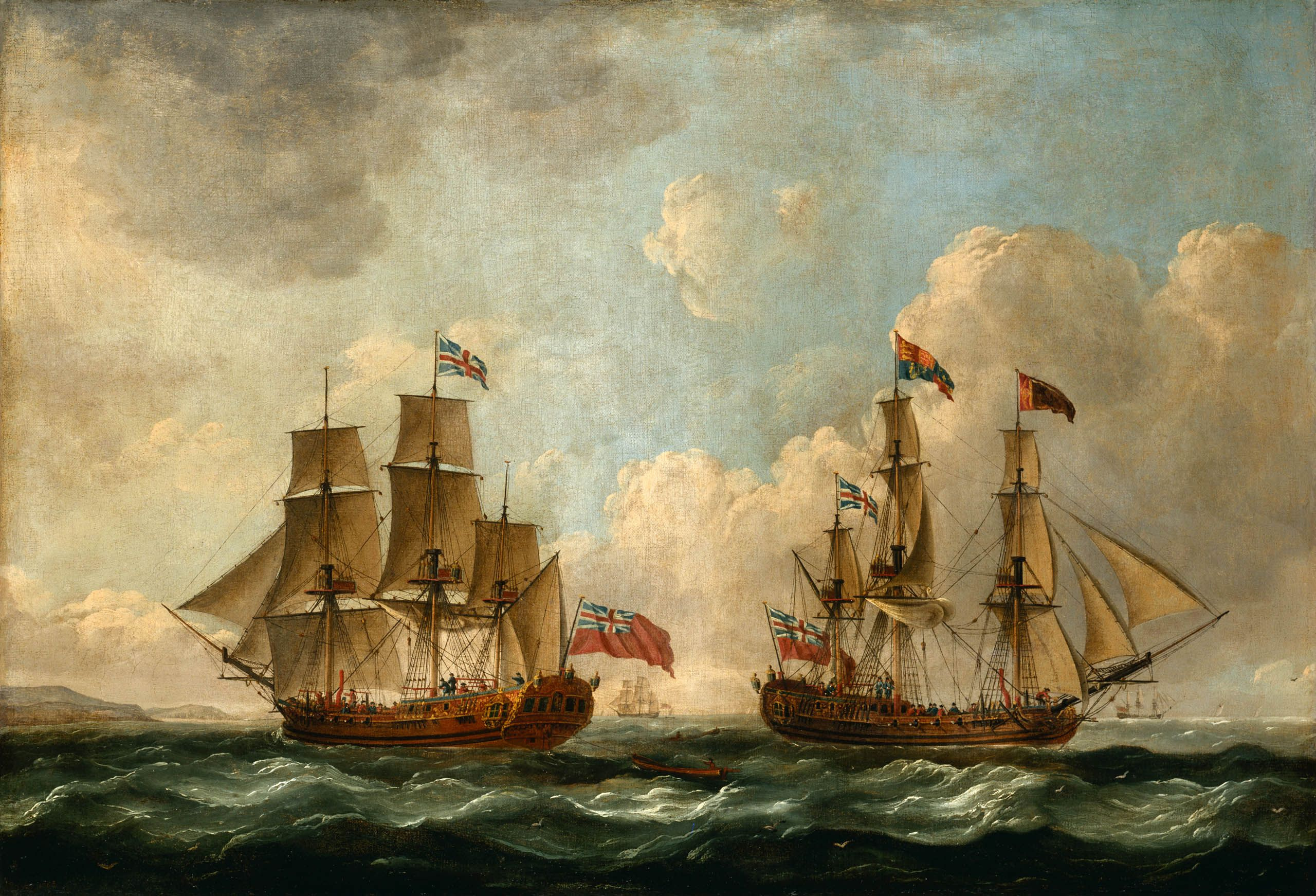 The Peregrine (later renamed the Royal Caroline) in Two Positions off the Coast). Oil on Canvas. Signed and dated. 23 1/4 x 34 1/2 in (59 x 88 cm).